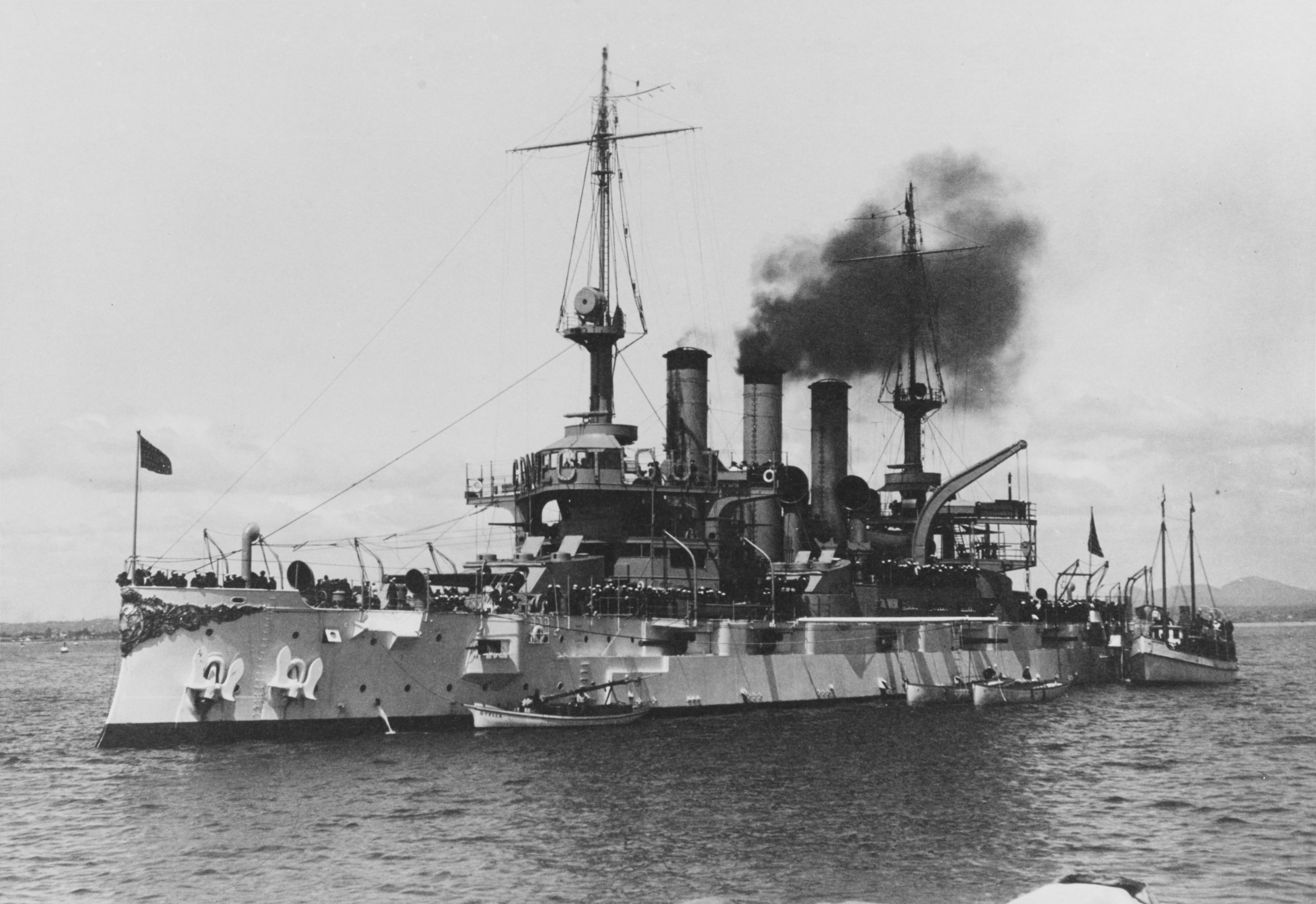 (Battleship # 18) Probably in San Diego harbor, California, in 1908. Photographed by Fred W. Kelsey. Courtesy of R.W. Cunningham, 1971. U.S. Naval History and Heritage Command Photograph.